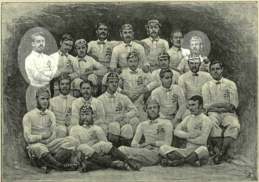 A picture of the first England Rugby side in 1871, with players from the Gipsies Football Club highlighted.